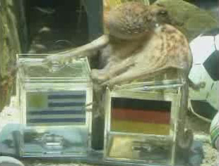 Paul the Octopus correctly predicts a win by Germany over Uruguay in the third-place 2010 FIFA World Cup match. Screenshot taken from VOA news video.